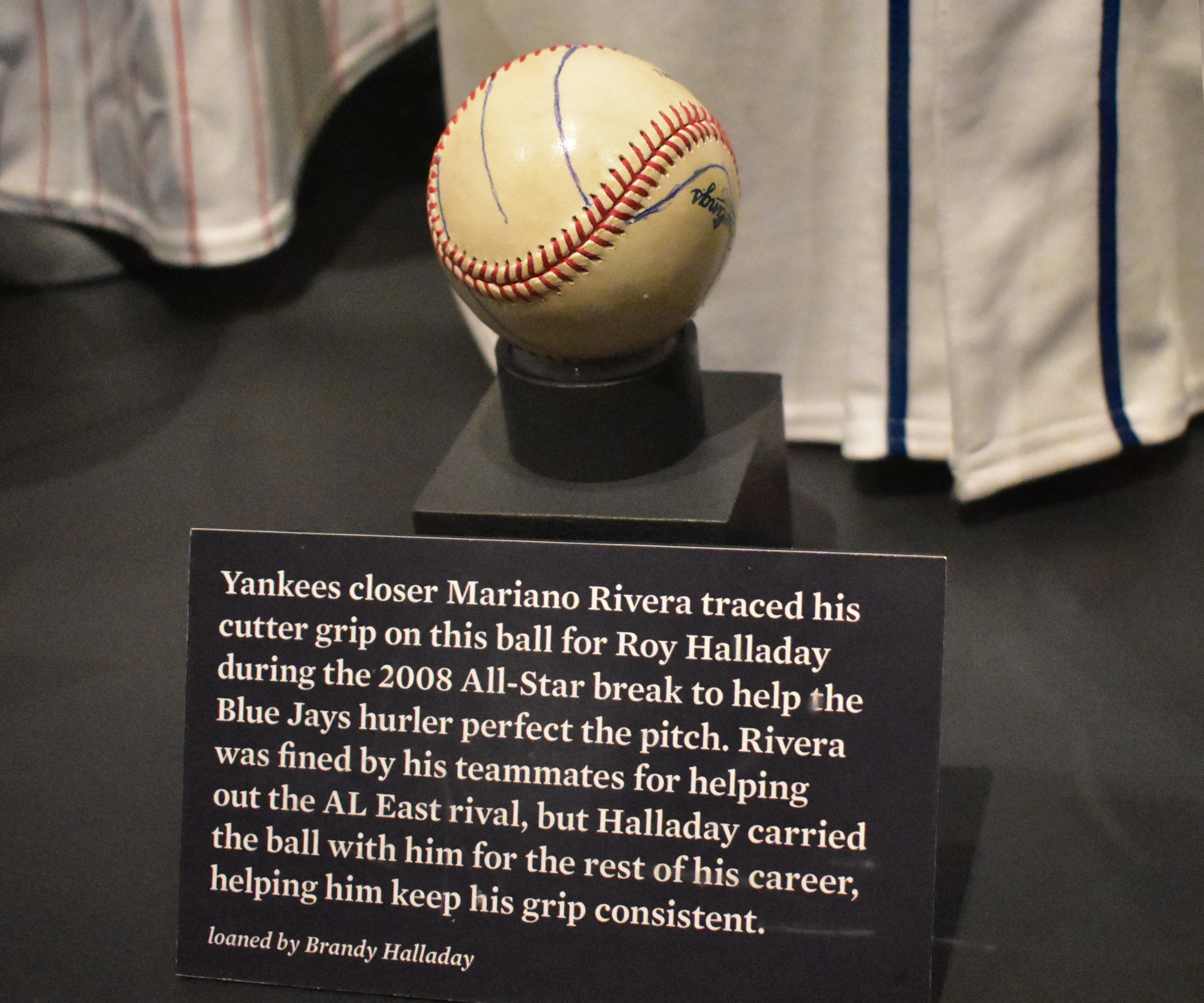 A baseball belonging to former MLB player Roy Halladay depicting the tracing of the cutter grip used by former MLB player Mariano Rivera, as seen in Roy Halladay's display case as part of his pending induction into the Baseball Hall of Fame in its class of 2019